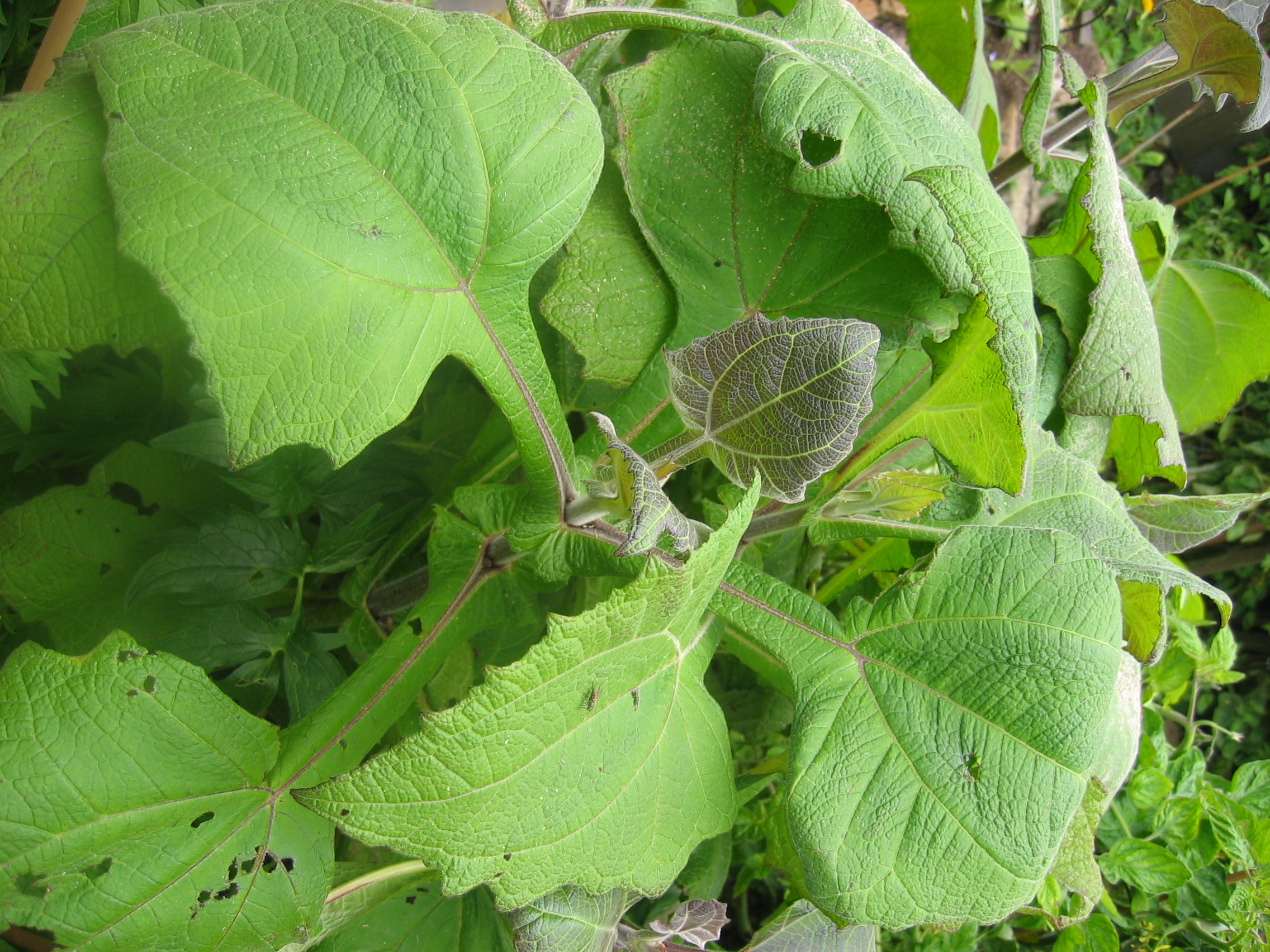 A healthy yacon plant.